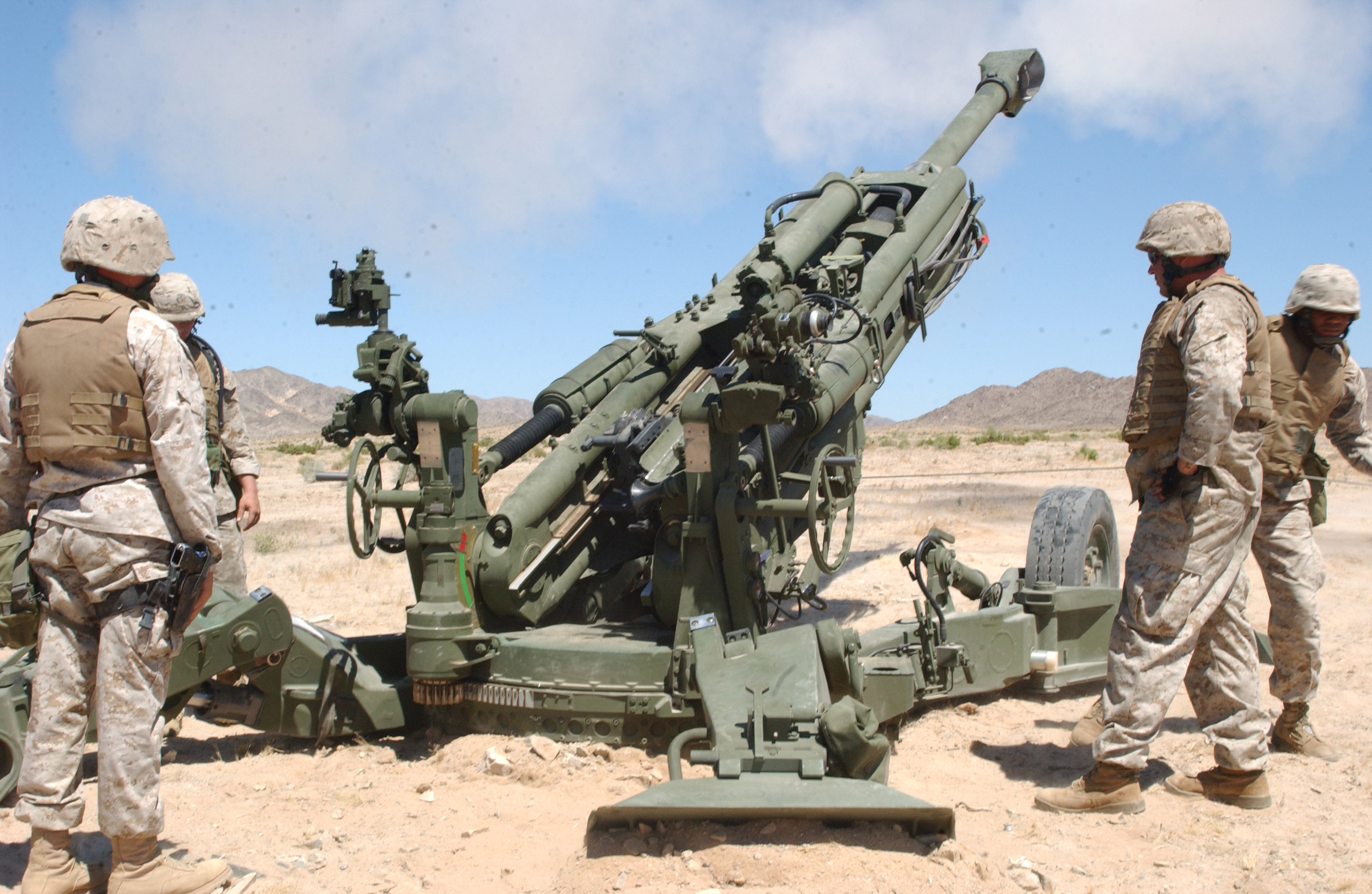 M777 howitzer, seen from rear. Original caption: "Artillerymen with Gun 3, Guns Platoon, Battery K, 3rd Battalion, 11th Marine Regiment, 1st Marine Division, based out of Marine Corps Base, Twentynine Palms, Calif., fire-off a round with the newly fielded M777 Lightweight 155-millimeter Howitzer Monday at the Marine Corps Air Ground Combat Center. Three lightweight howitzers were fielded to Kilo Battery, which participated in a weeklong Fire Exercise beginning May 23." (The text, like the image, is PD-USGov-Military-Marines)